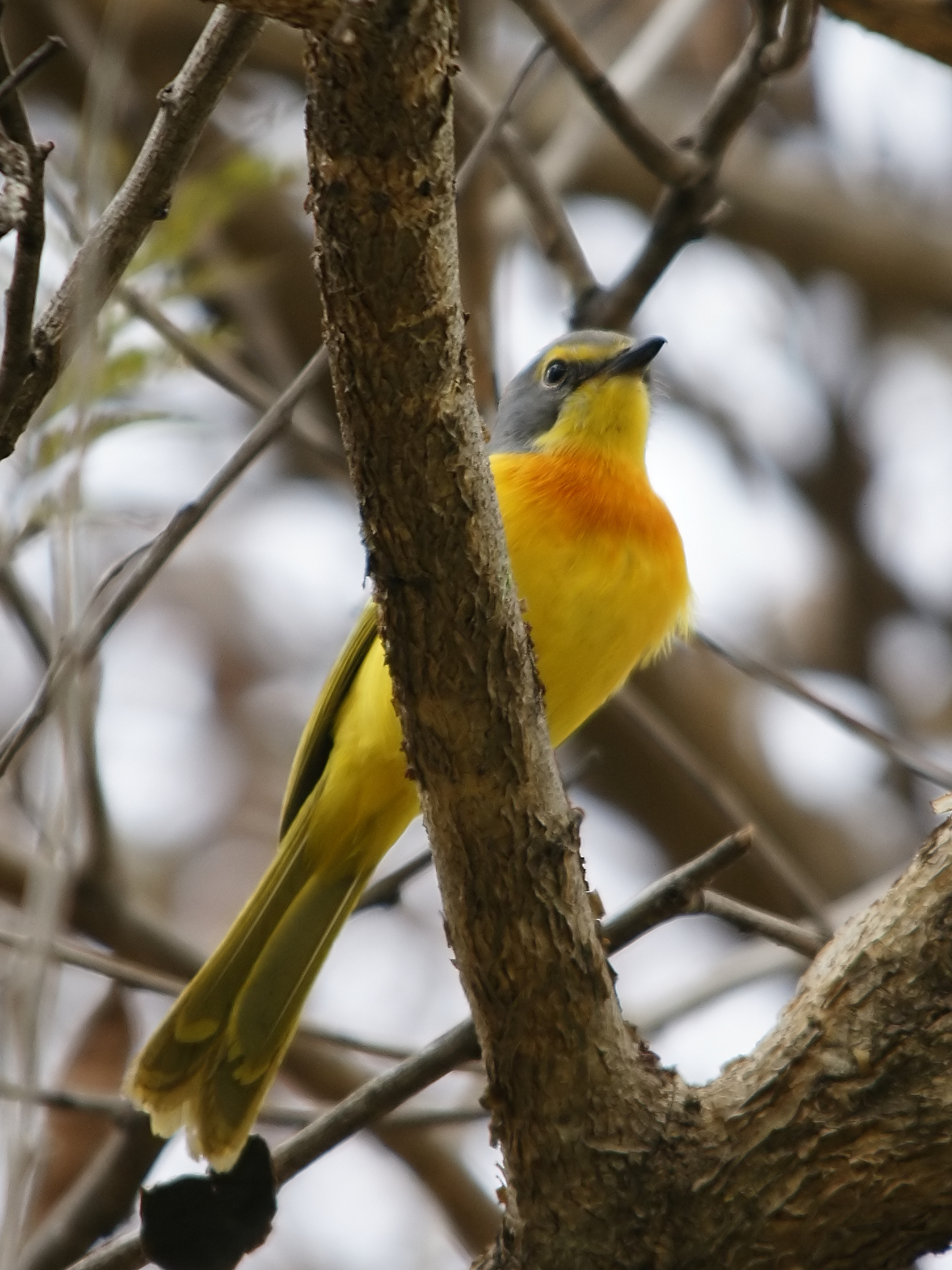 Sulphur-breasted Bushshrike close to Chilanga near Lusaka, Zambia.